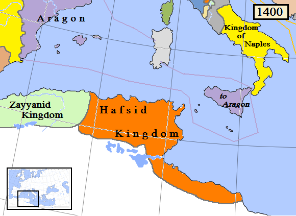 Map of the Hafsid dynasty/kingdom in North Africa, AD 1400. (Partially based on Euratlas map of Europe 1400.)